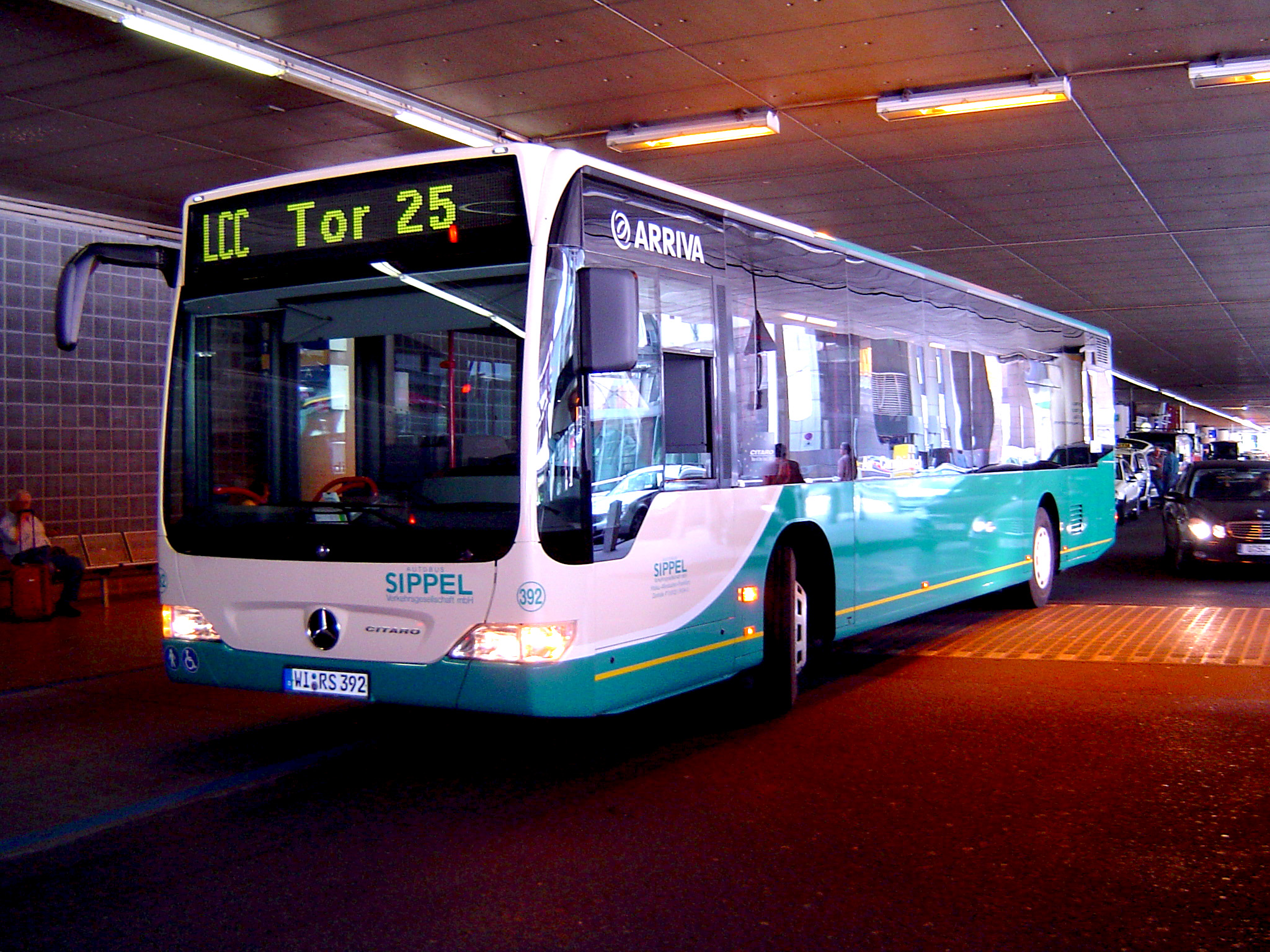 Sippel Citaro Facelift in Arriva livery at Terminal 1, Airport Frankfurt